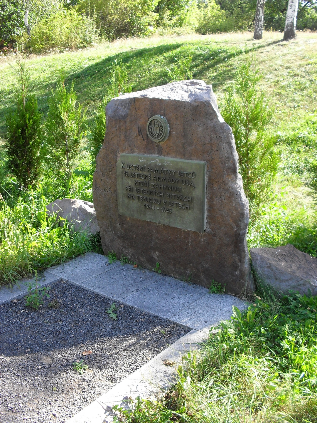 Memorial for fallen airmen of the Fifteenth Air Force of the US Army Air Forces. Caption reads: "To honor the memory of the airmen of the 15th Air Force of the USA who died during the aerial battles over Teplice in the years 1944-1945."